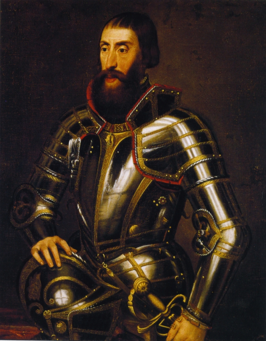 Emperor Ferdinand I of the Romans